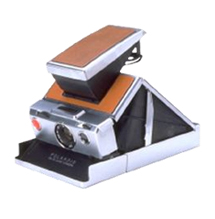 Polaroid camera - Model: sx 70.